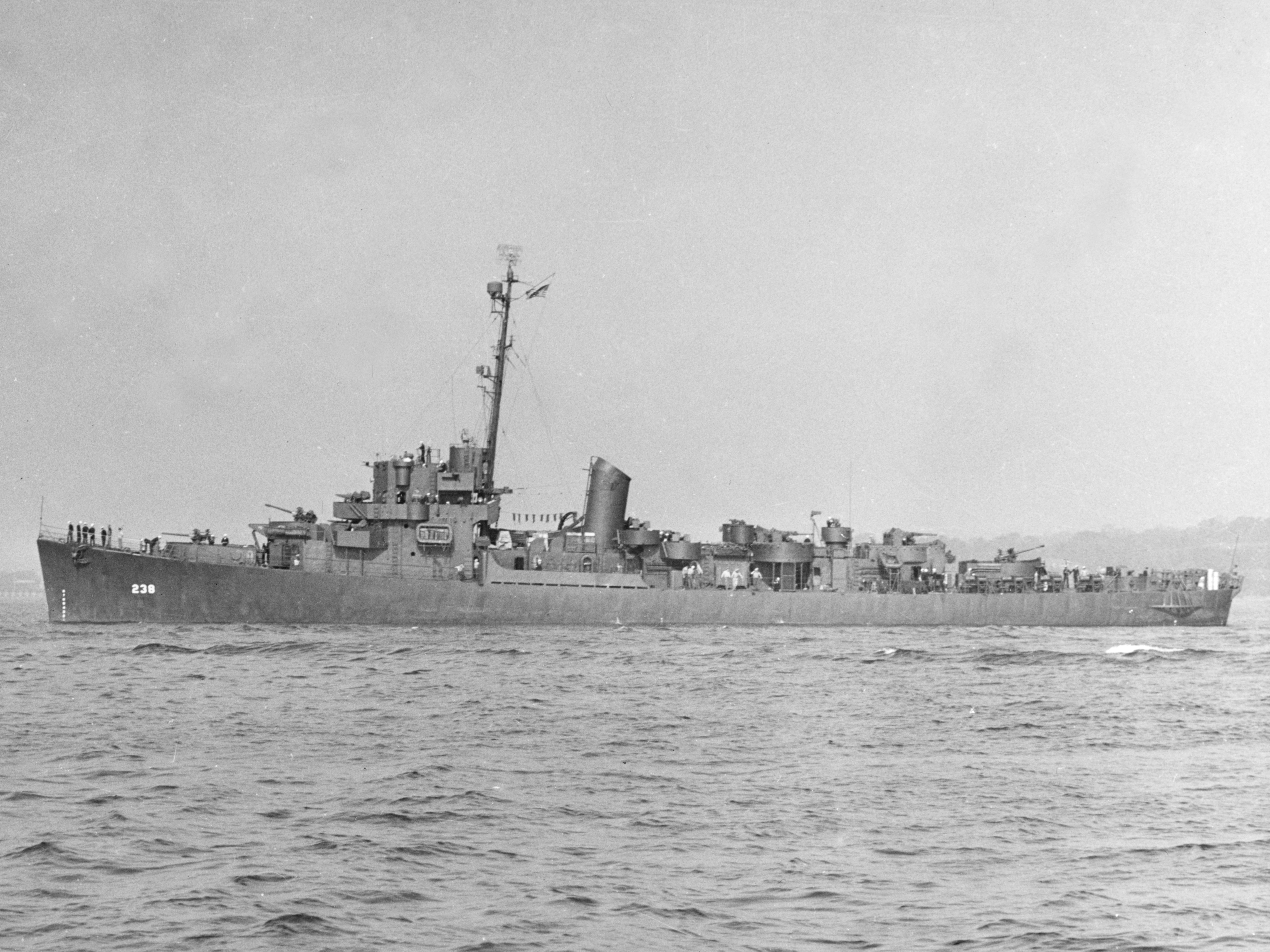 The U.S. Navy destroyer escort USS Stewart (DE-238) underway in New York Harbor (USA) on 22 June 1945.